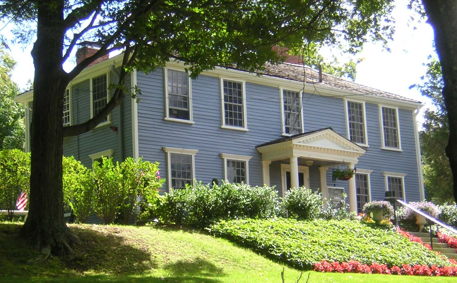 Suffolk Resolves House, 1370 Canton Avenue, Milton MA